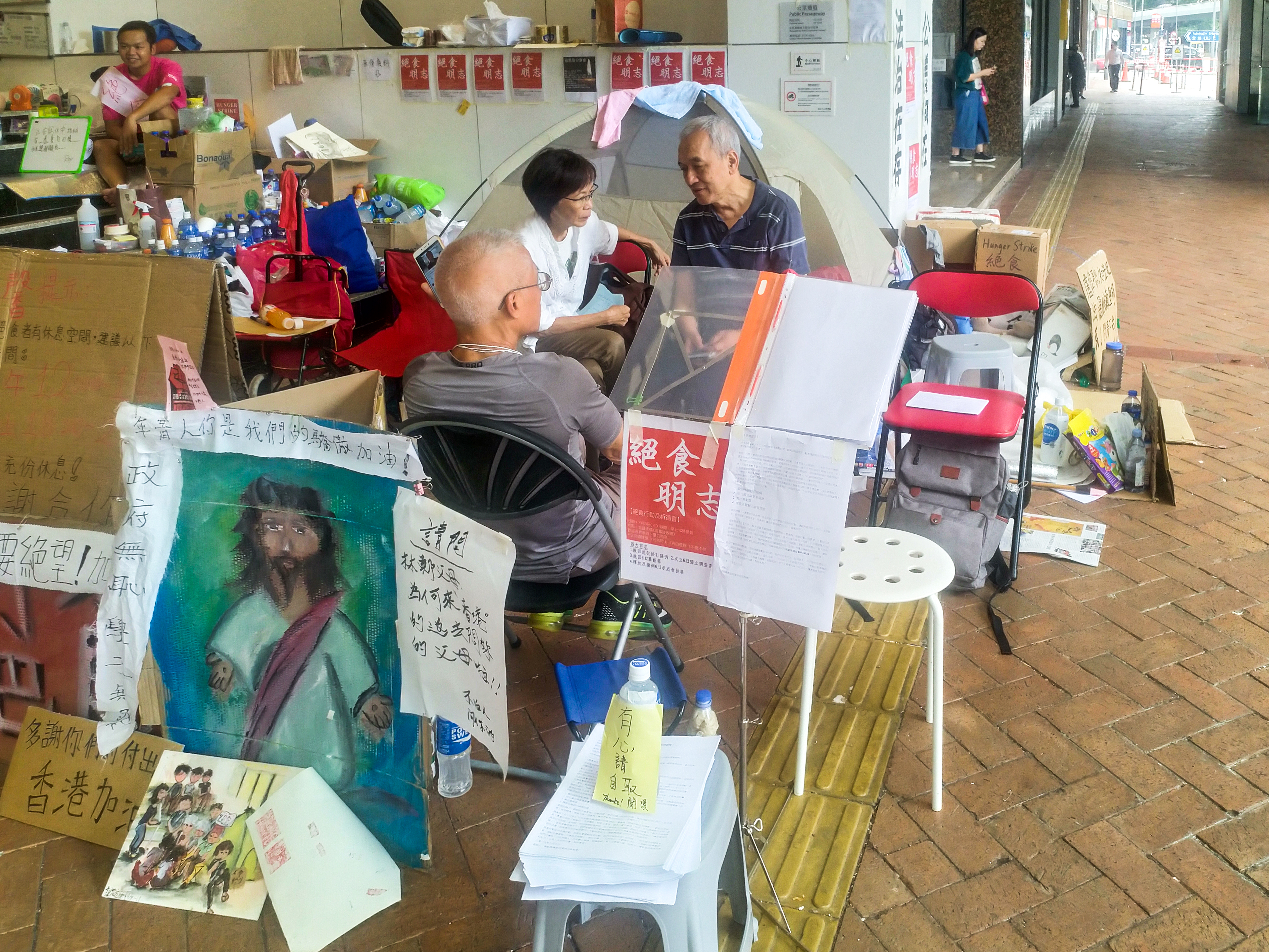 Hunger strike against proposed extradition bill outside Admiralty Centre, Hong Kong